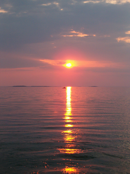 Evening sun in Preivik, Pori, Finland